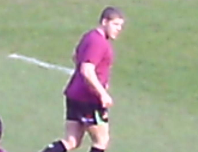 Ben Jones at Harlequins vs St Helens in the European Super League.